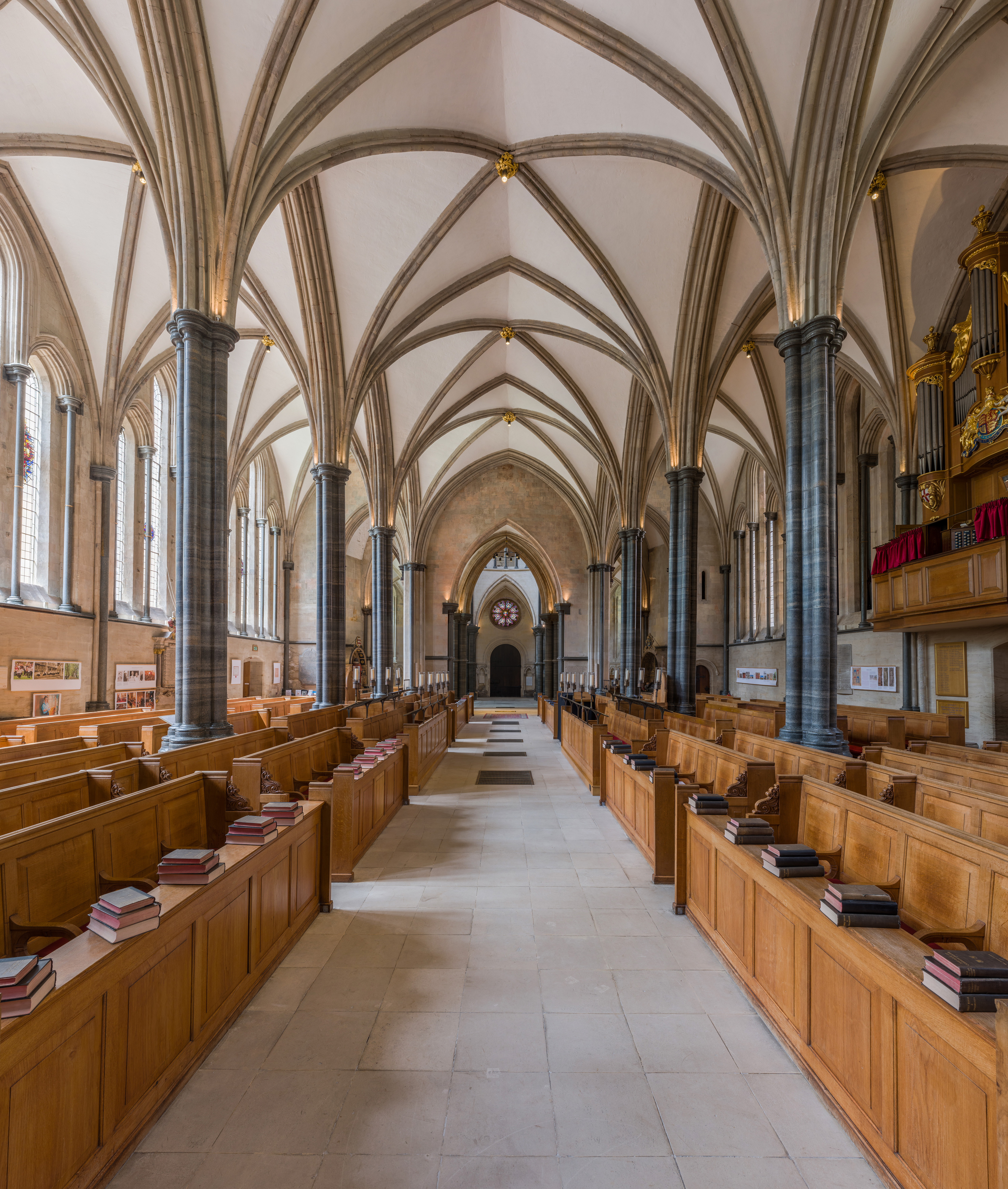 The view from the altar looking west towards the round.